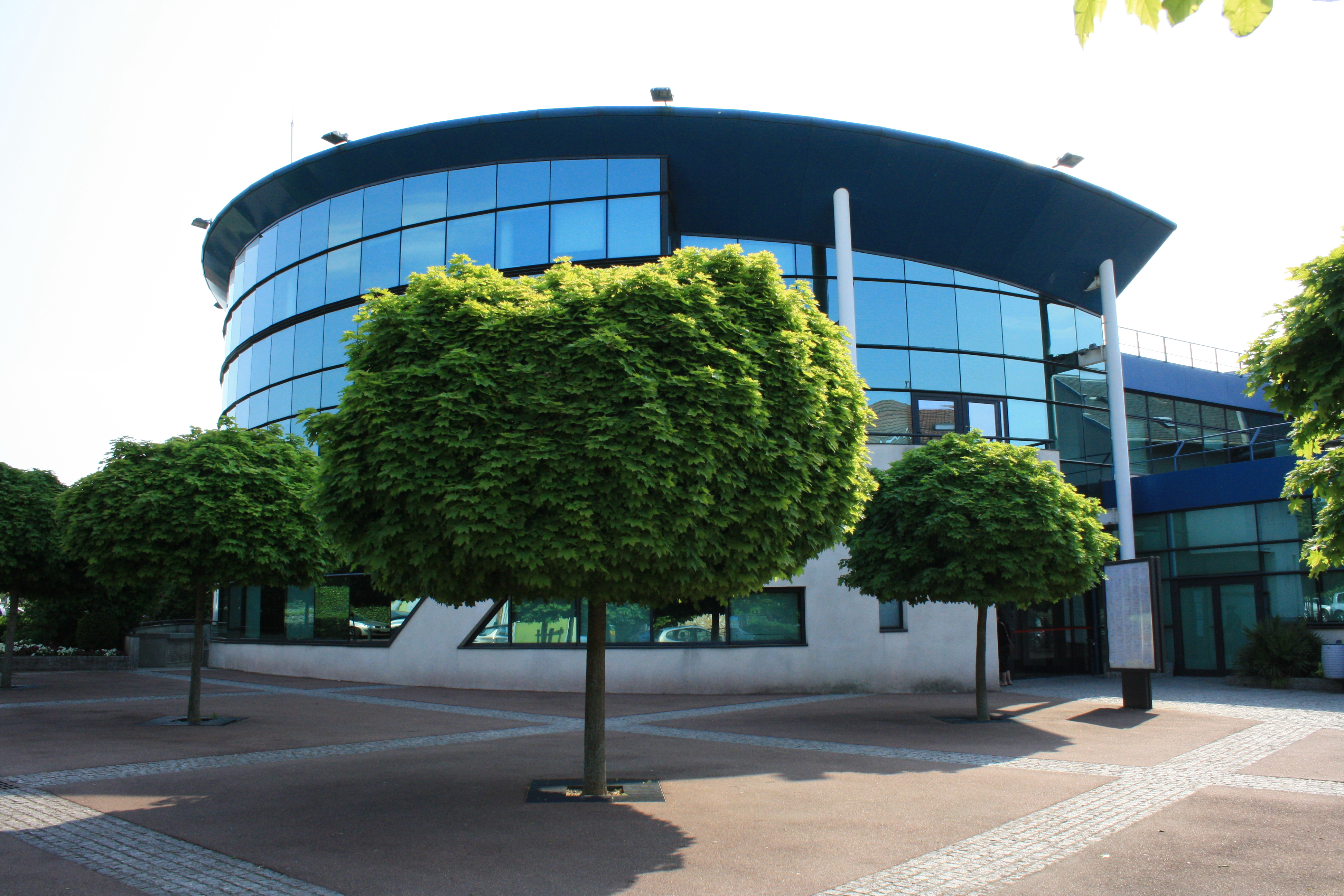 Savigny-sur-Orge in France